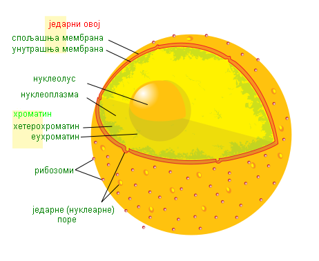 a comprensive diagram of a human cell nuclear envelope, names in serbian